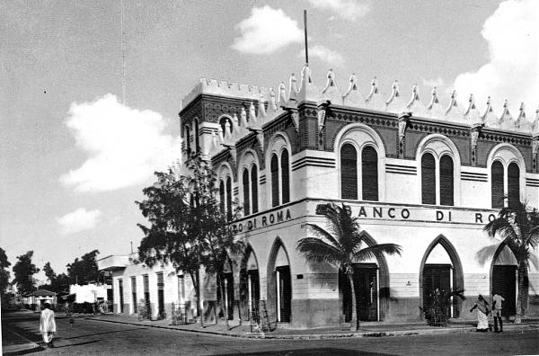 Bank of Rome, Mogadishu (Italian Somaliland)